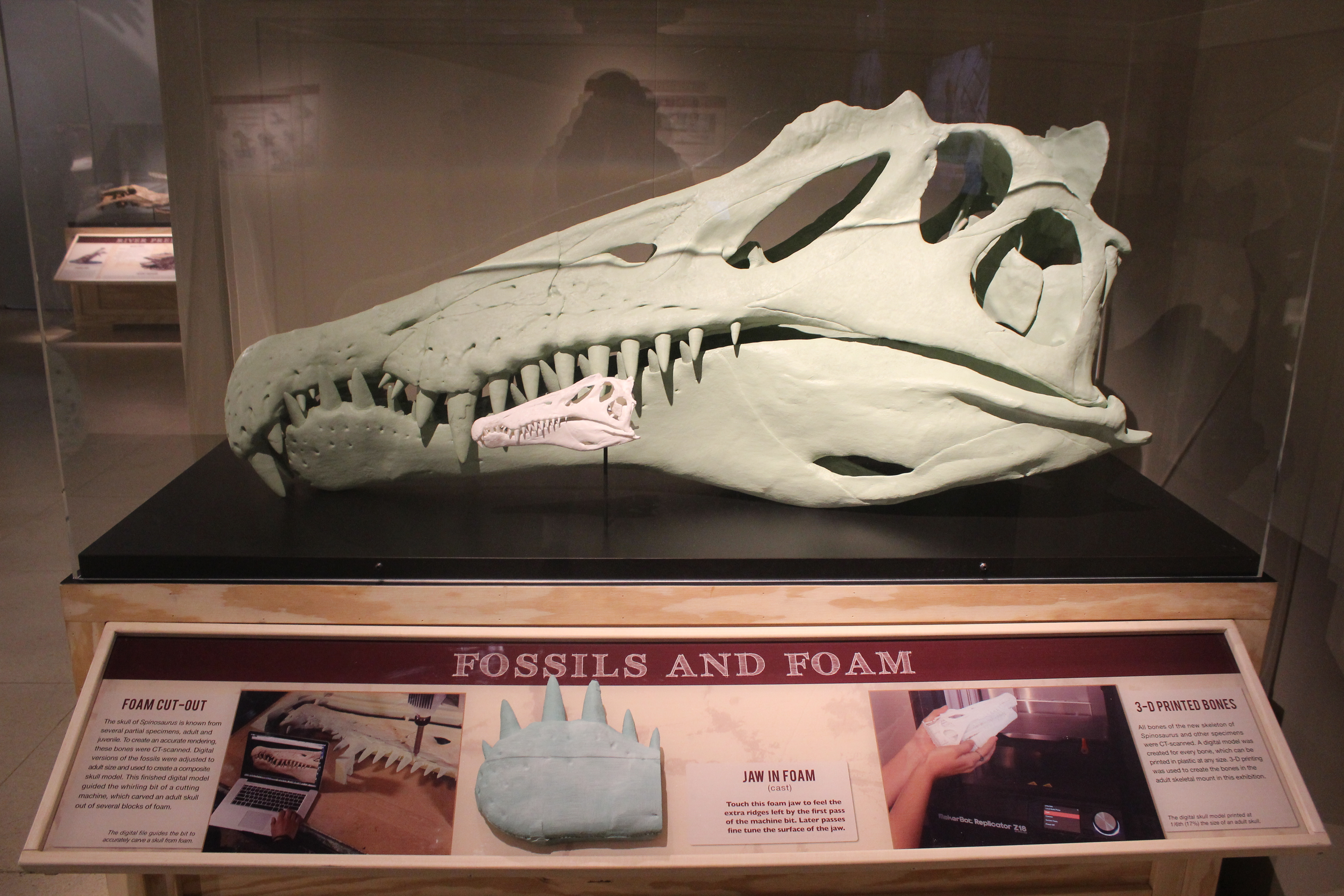 Taken at the National Geographic Museum Spinosaurus Exhibit. Photo by